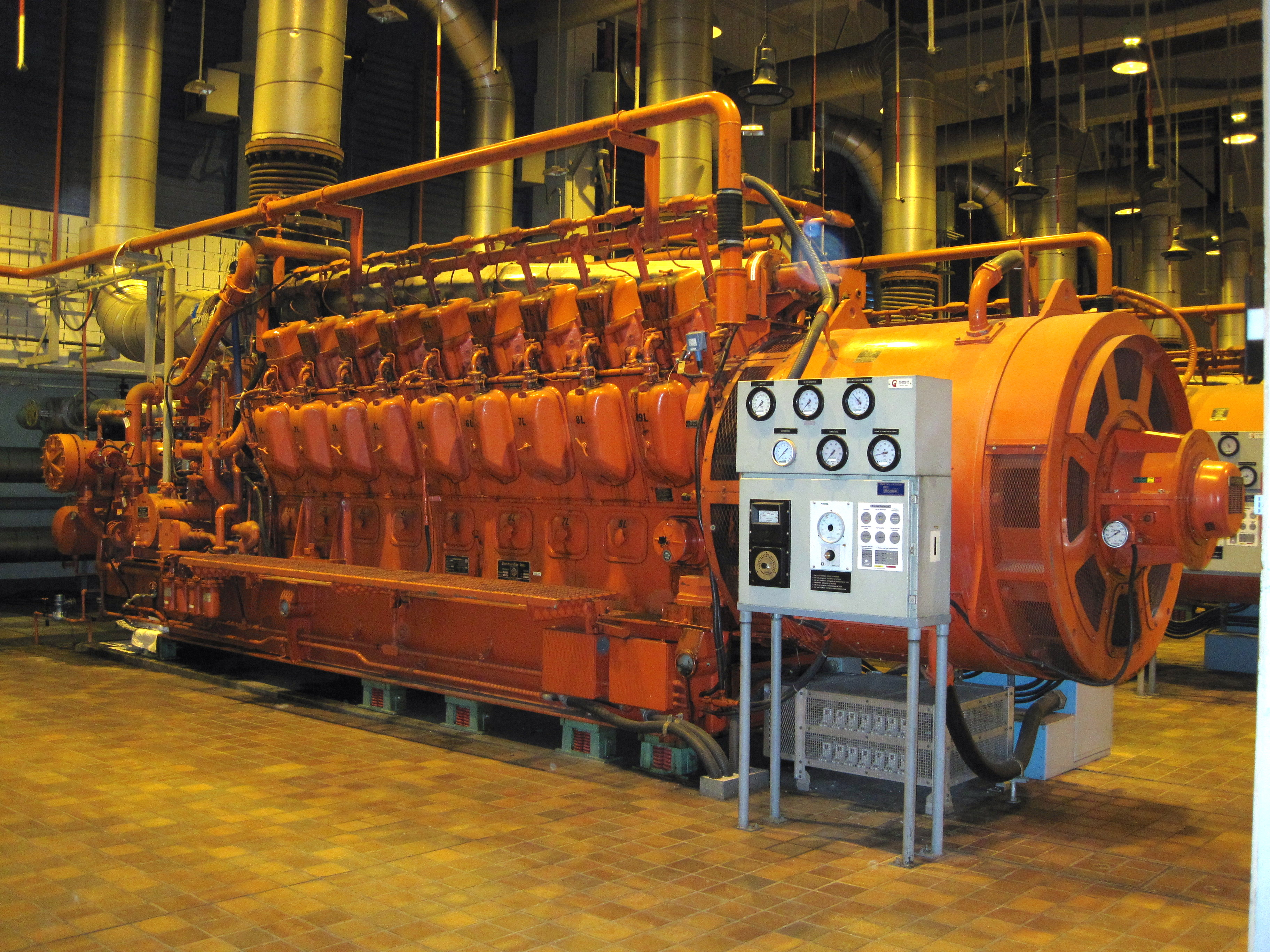 2.5 MW V18 diesel generator ensuring electricity supply to the wastewater plant in Montreal, Quebec. This is an ALCO 18-251 engine.